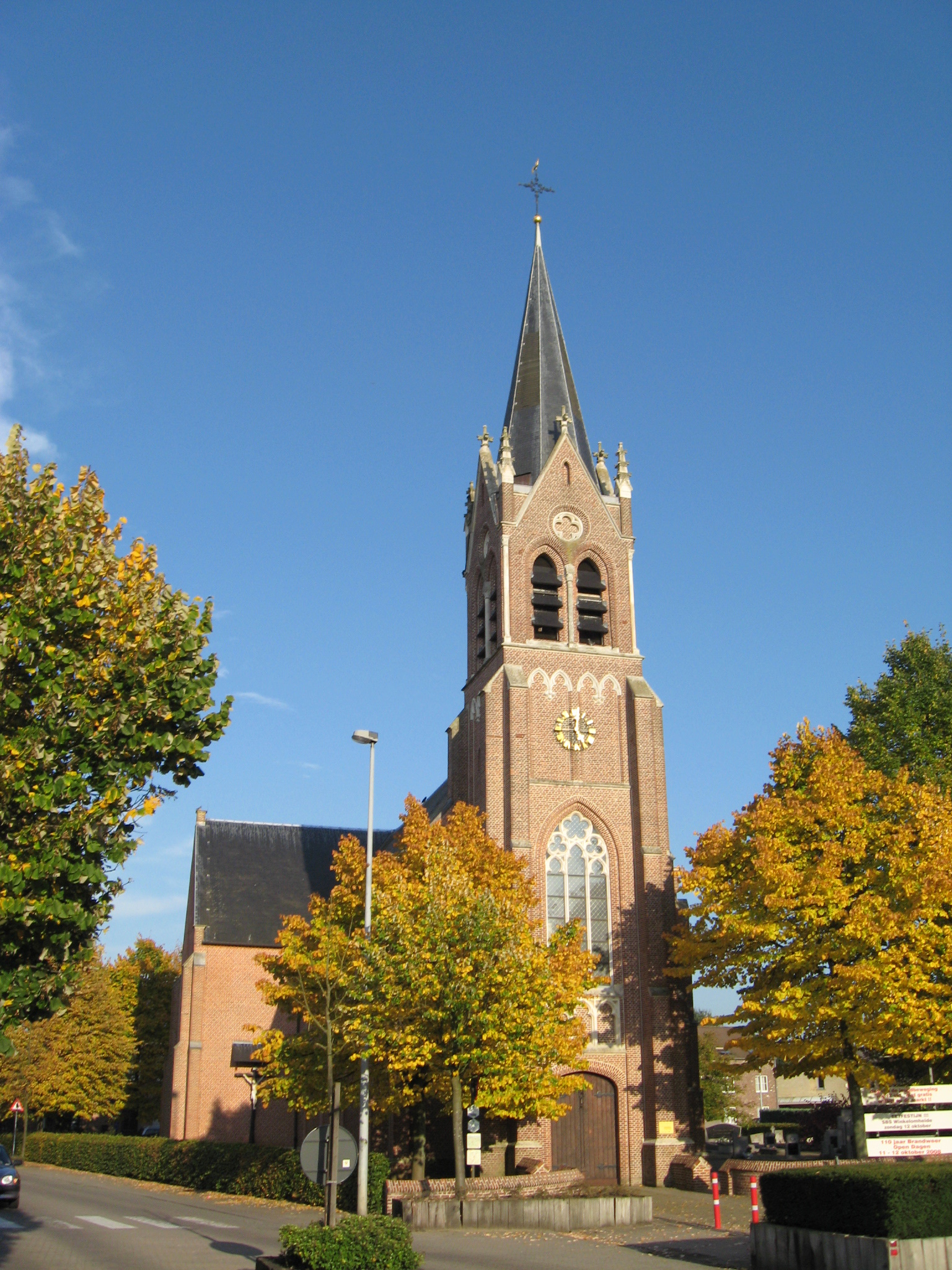 Church of Saint Lawrence in Zammel, Geel, Antwerp, Belgium